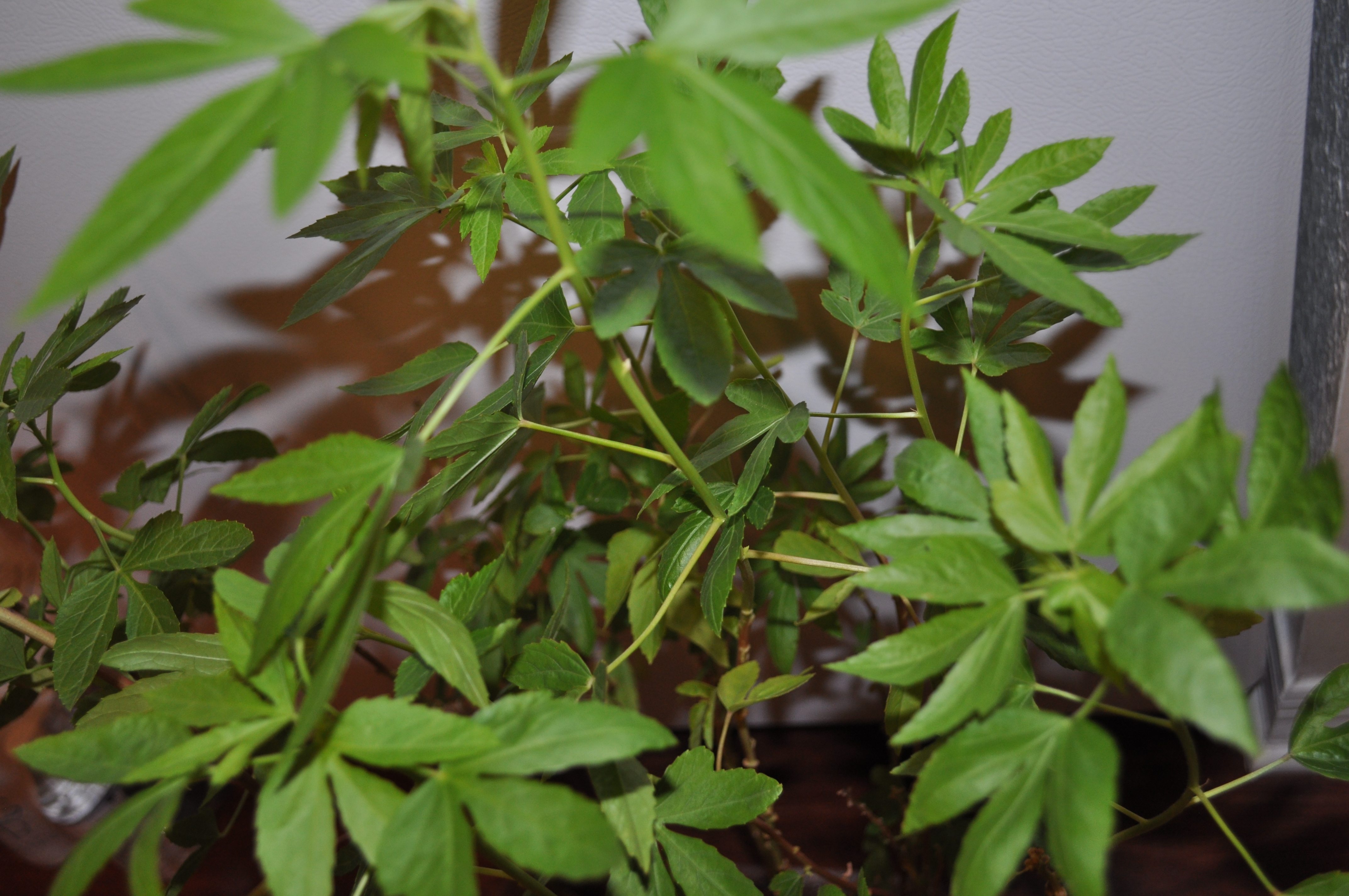 Kenaf Plant